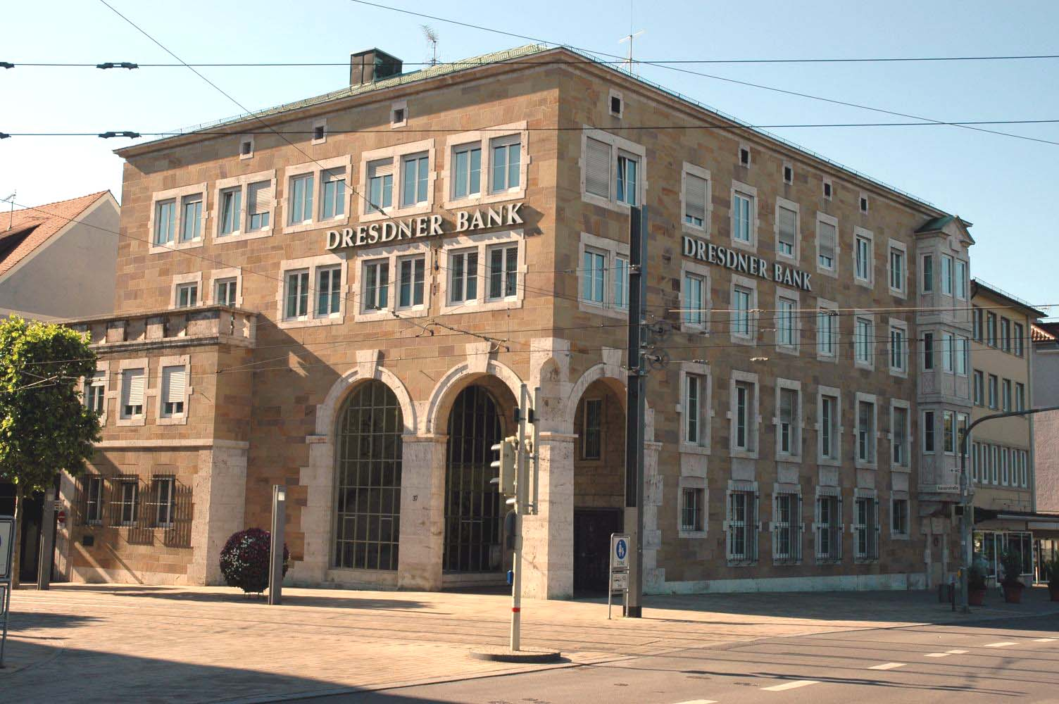 Dresdner Bank building in Heilbronn